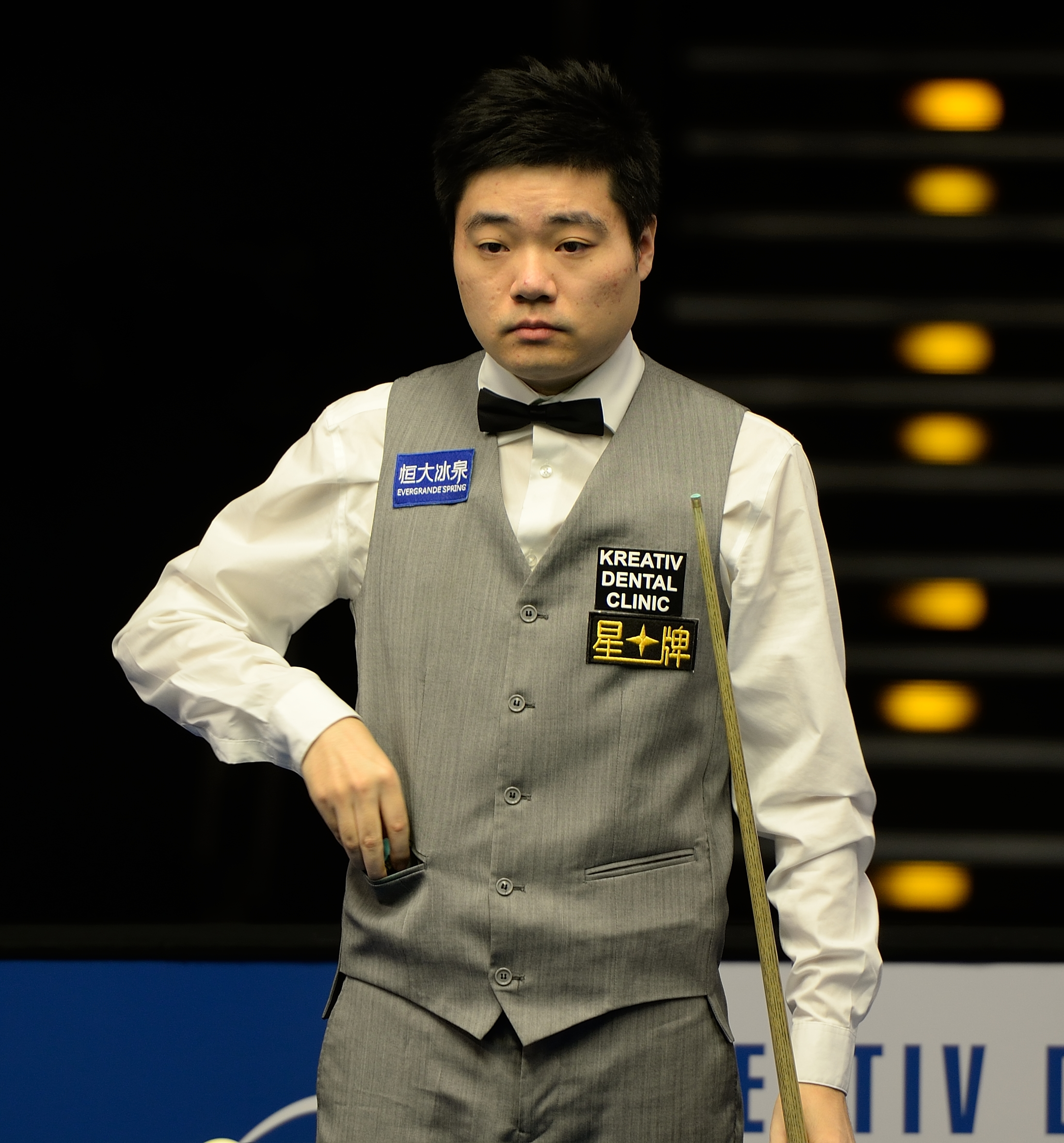 Picture taken in Berlin during the Snooker German Masters in 2015. Ding Junhui.